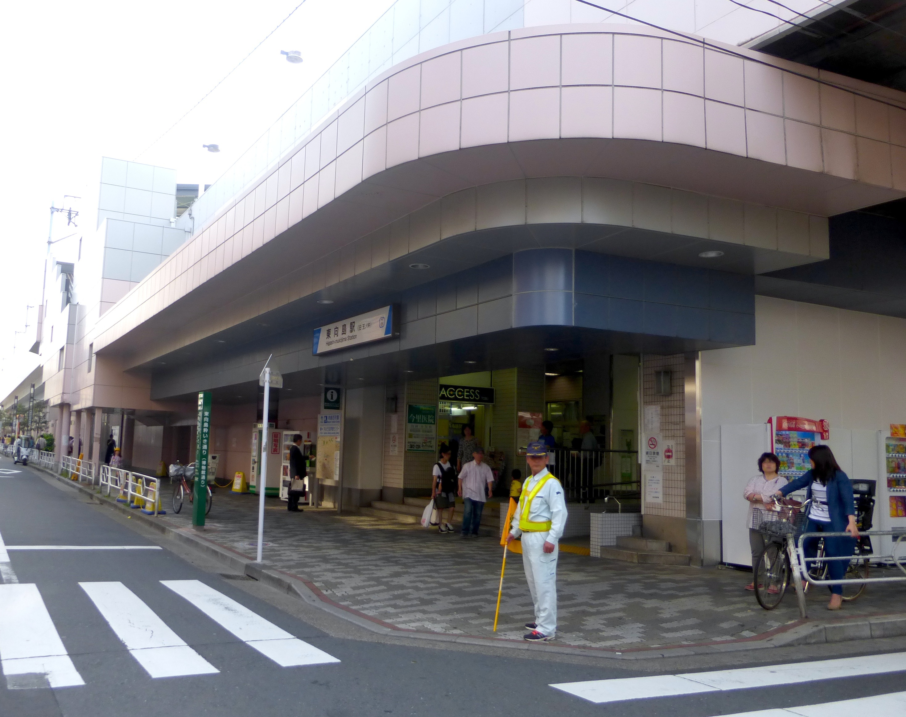 Higashi-Mukōjima Station exit/entrance (東向島駅の出入口)